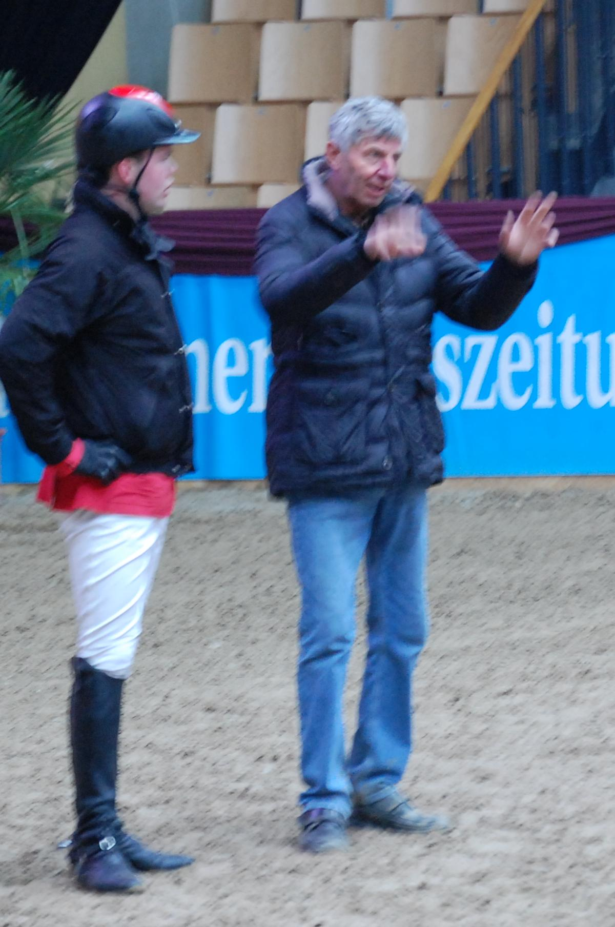 From left to right: show jumper Josef-Jonas Sprehe, trainer and former show jumper Tjark Nagel. Schweriner Horse Show at the Sport- und Kongresshalle Schwerin, February 2013